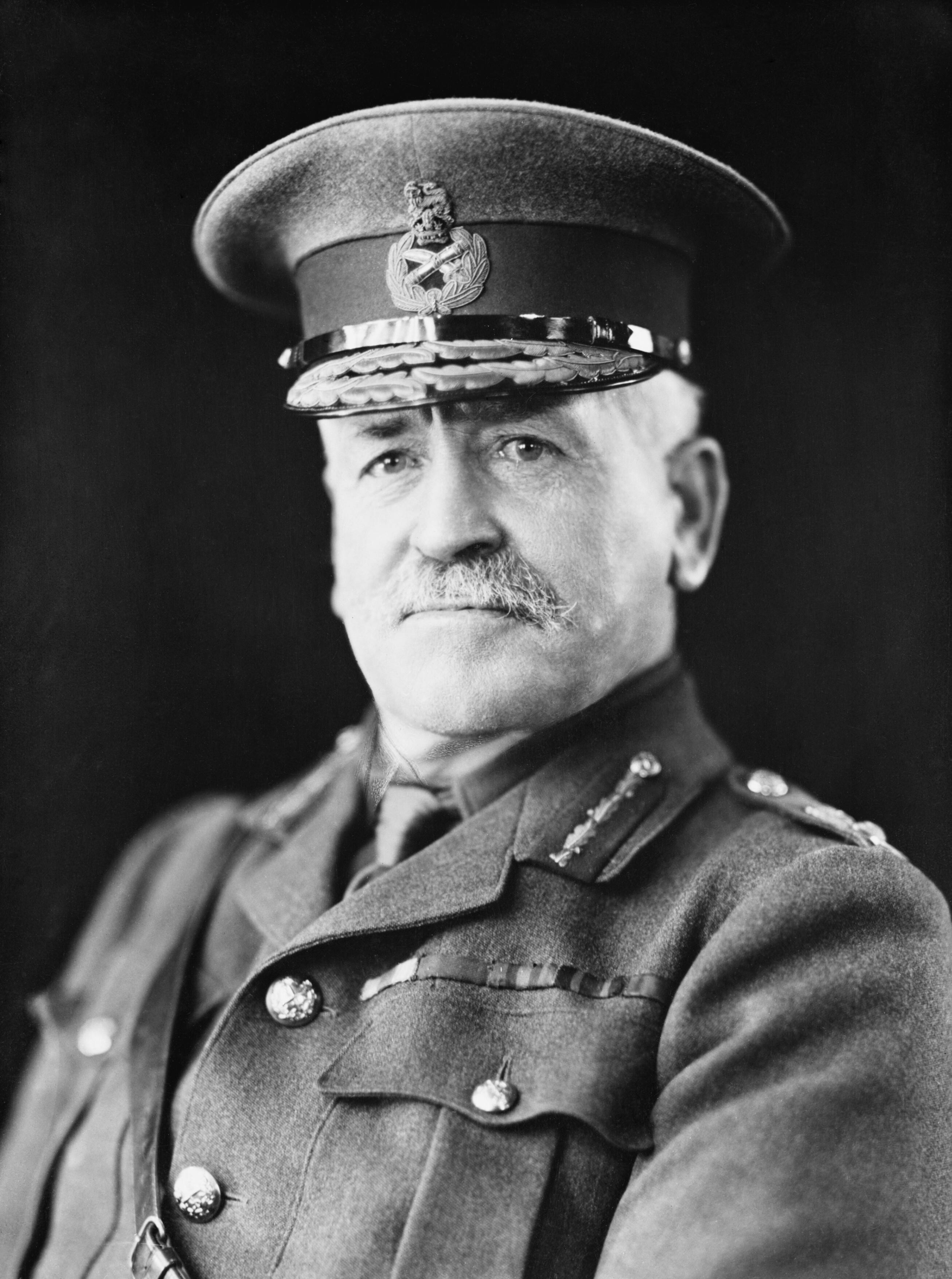 General Charles Carmichael Monro. Unit: Commander-in-Chief of the Mediterranean Expeditionary Force. Death: 07 December 1929.